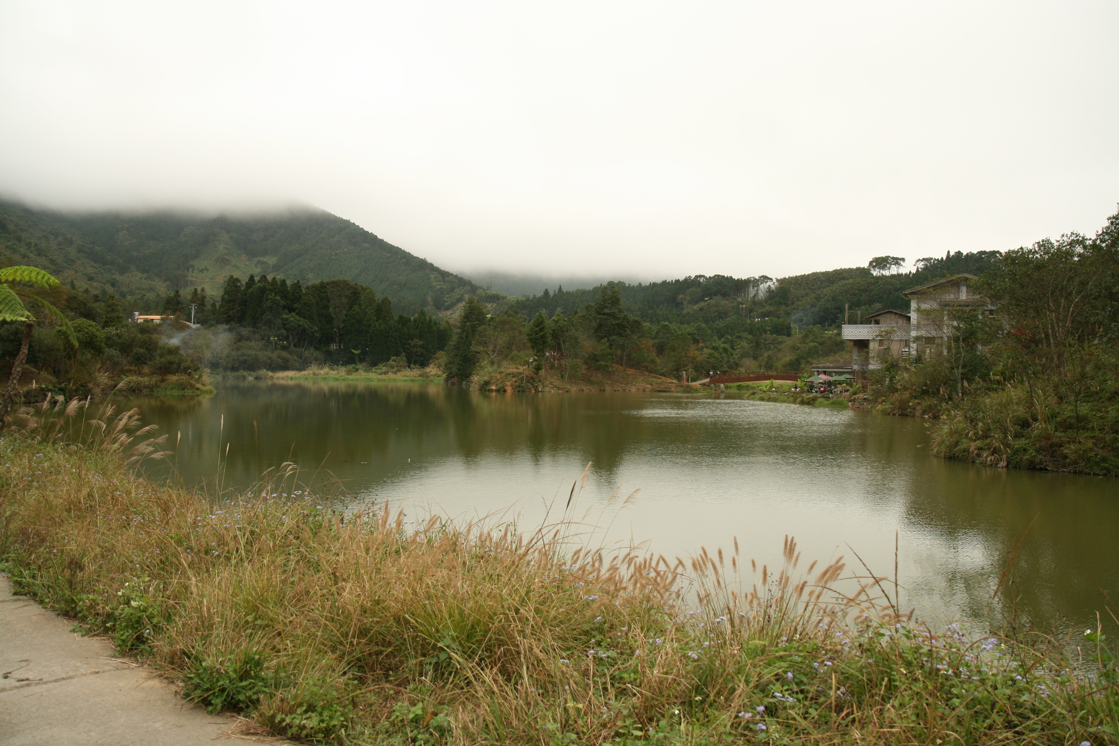 Xiang Ten Lake in Miaoli, Taiwan.